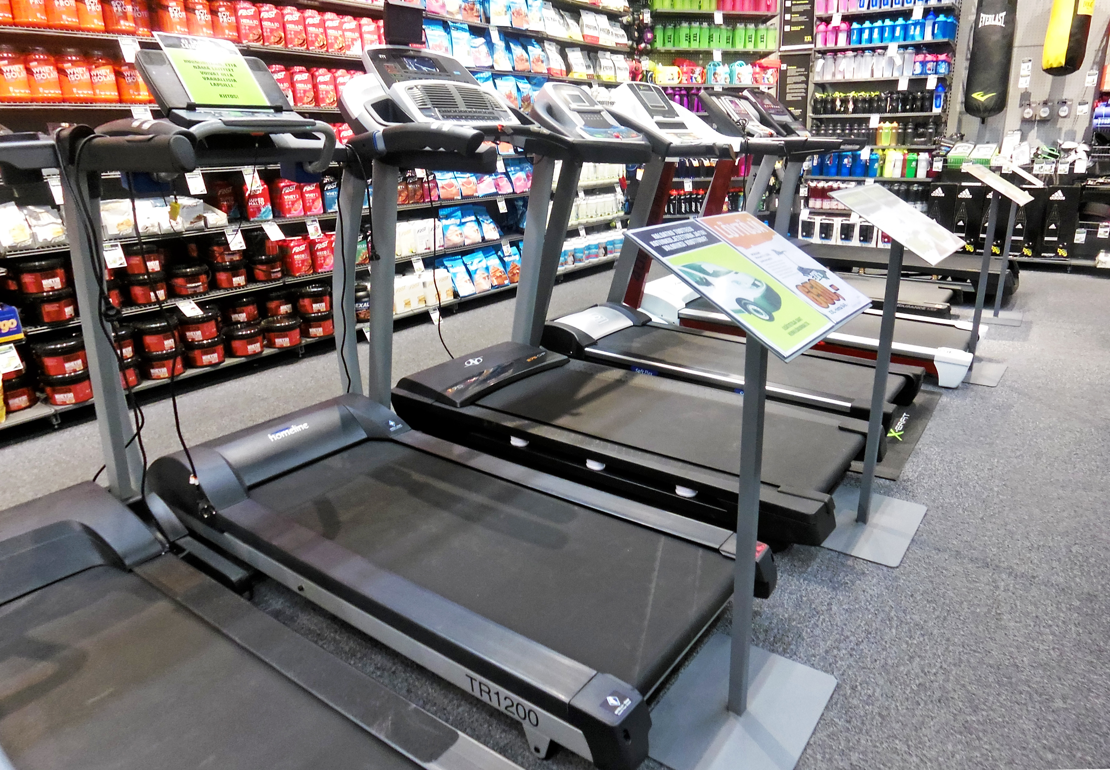 Treadmills in XXL store, Lielahti, Tampere.